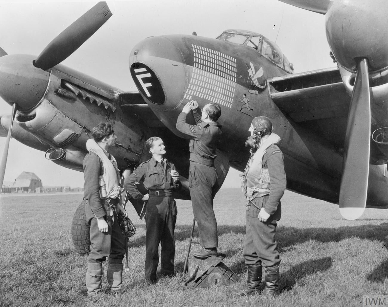 IWM caption : Corporal J Patterson records the 203rd sortie on the operations tally of De Havilland Mosquito B Mark IX, LR503 'GB-F', of 'C' Flight, No. 105 Squadron RAF at Bourn, Cambridgeshire, watched by its crew, Flight Lieutenant T P Lawrenson (pilot, far left) and Flight Lieutenant D W Allen RNZAF (navigator, right). "F-Bar for Freddie" went on to complete 213 sorties, a Bomber Command record.